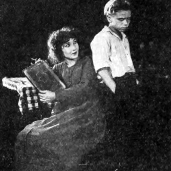 Bessie Love reads a book in a scene from The Midlanders (1920), directed by Joseph De Grasse and Ida May Park